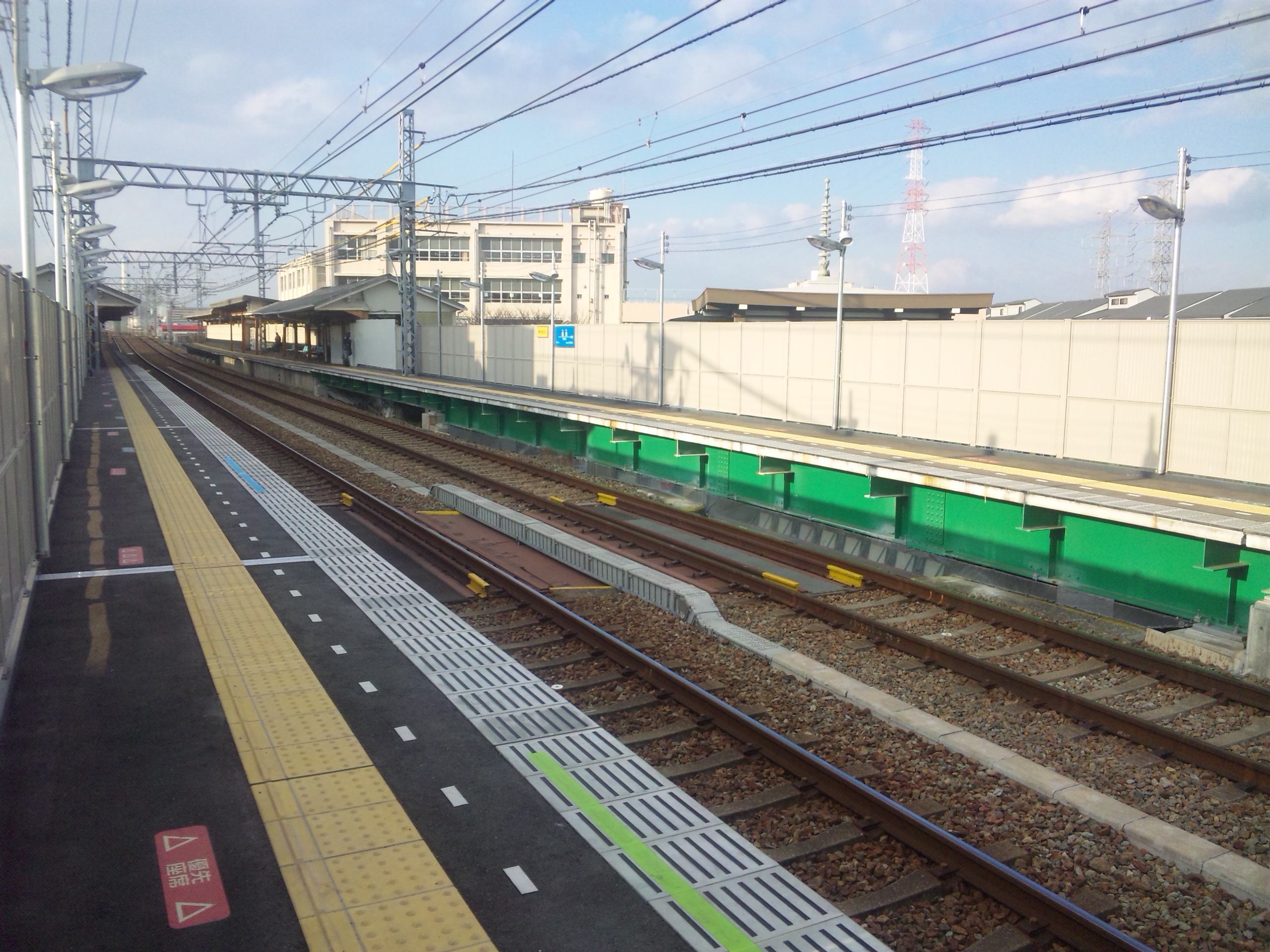 Hanshin Electric Railway,Hanshin Namba Line,Denpo Station platform. /阪神なんば線伝法駅ホーム